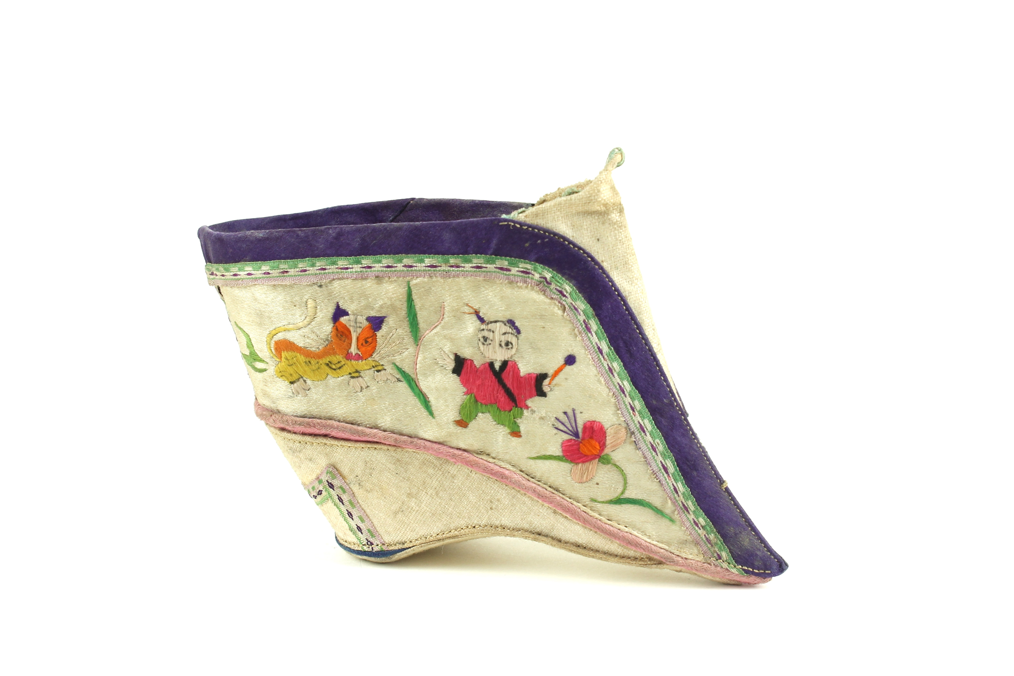 Woman's "Loto" shoe. China, 19th century